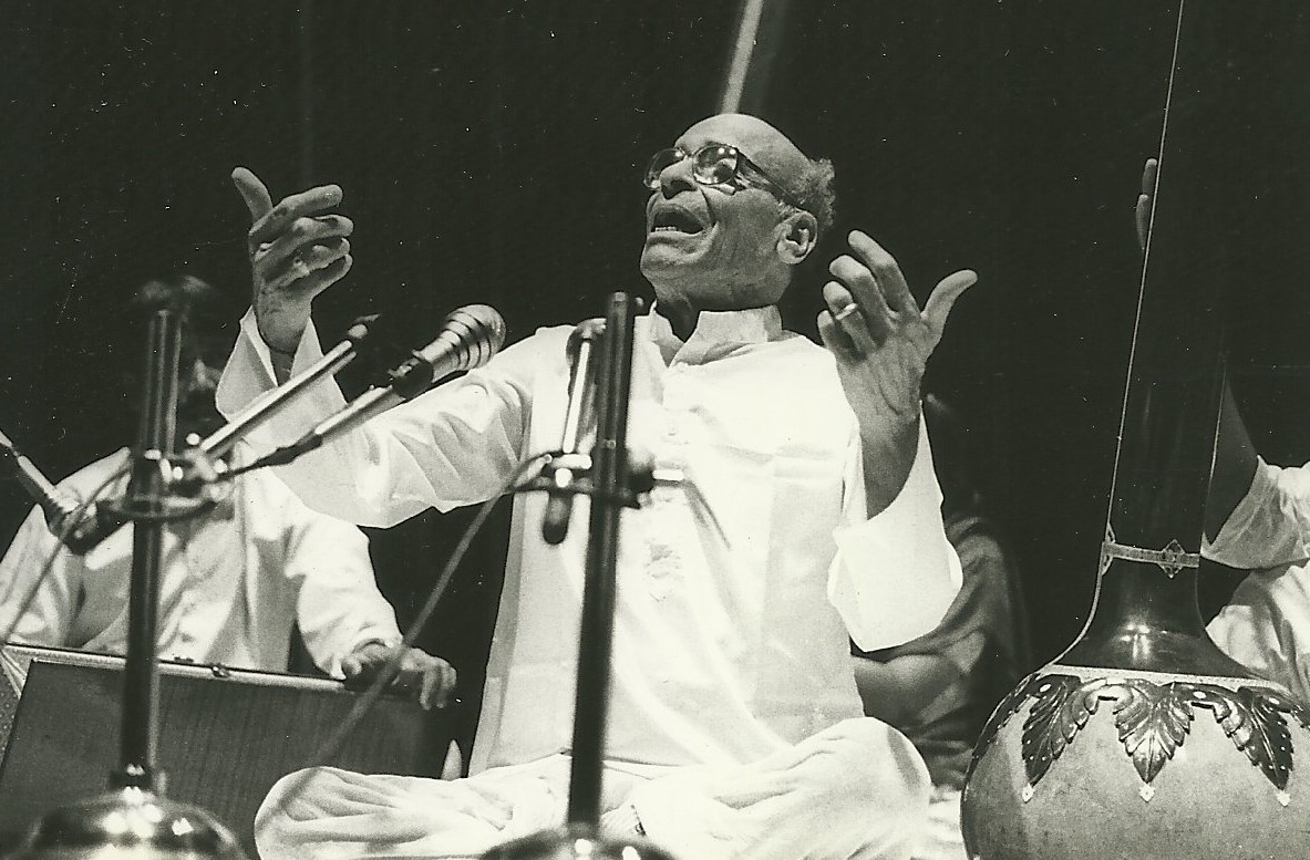 Mallikarjun Mansur live at concert